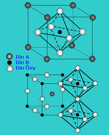 Crystal structure of perovskite materials